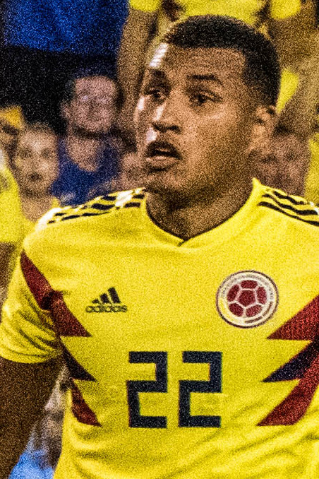 Matt Garrity Location : Raymond James Stadium, Tampa FL My contact : Instagram : djdouken Website